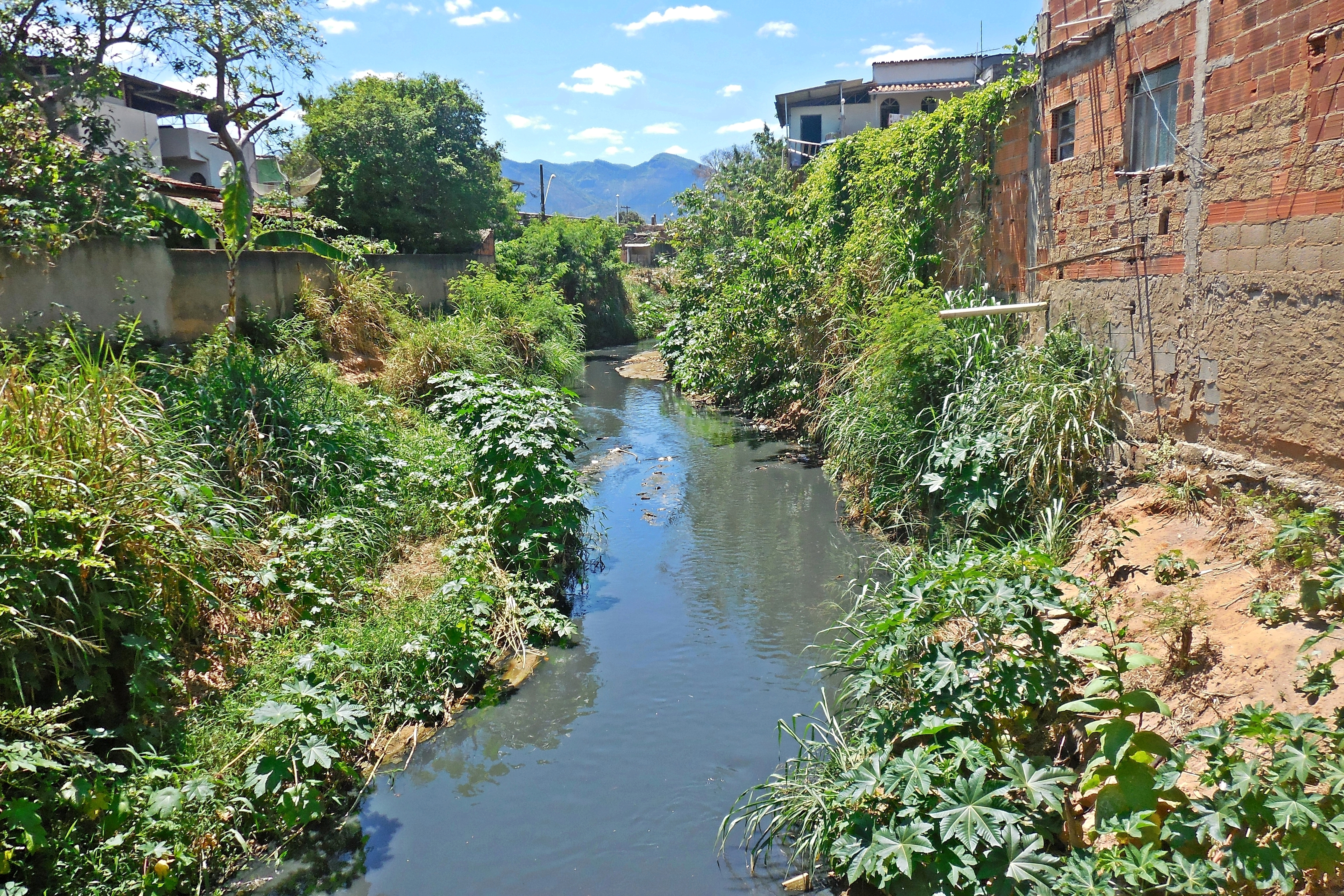 Caladão Stream between the Melo Viana and Júlia Kubitschek neighborhoods, in Coronel Fabriciano, Minas Gerais, Brazil.